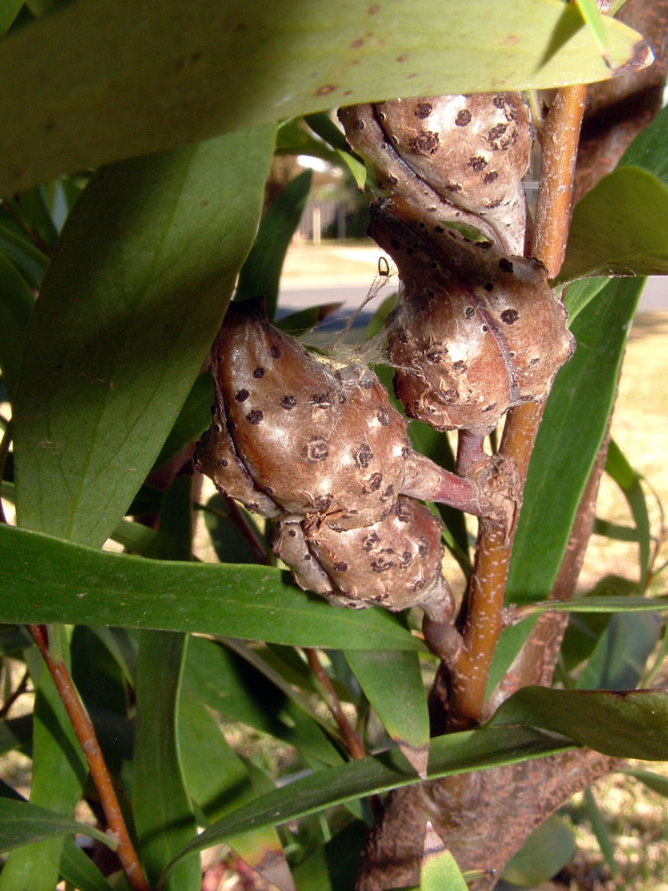 Hakea salicifolia (Willow-leaved Hakea) seed pods Because this photograph concerns privacy since this was taken on a private property, only an approximate location is provided: Wagga Wagga, New South Wales, Australia